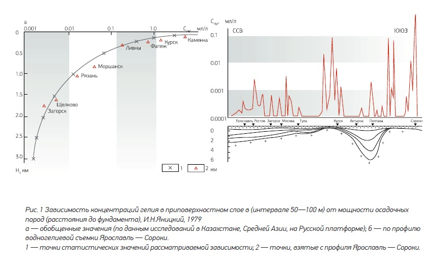 The scheme of He concentration